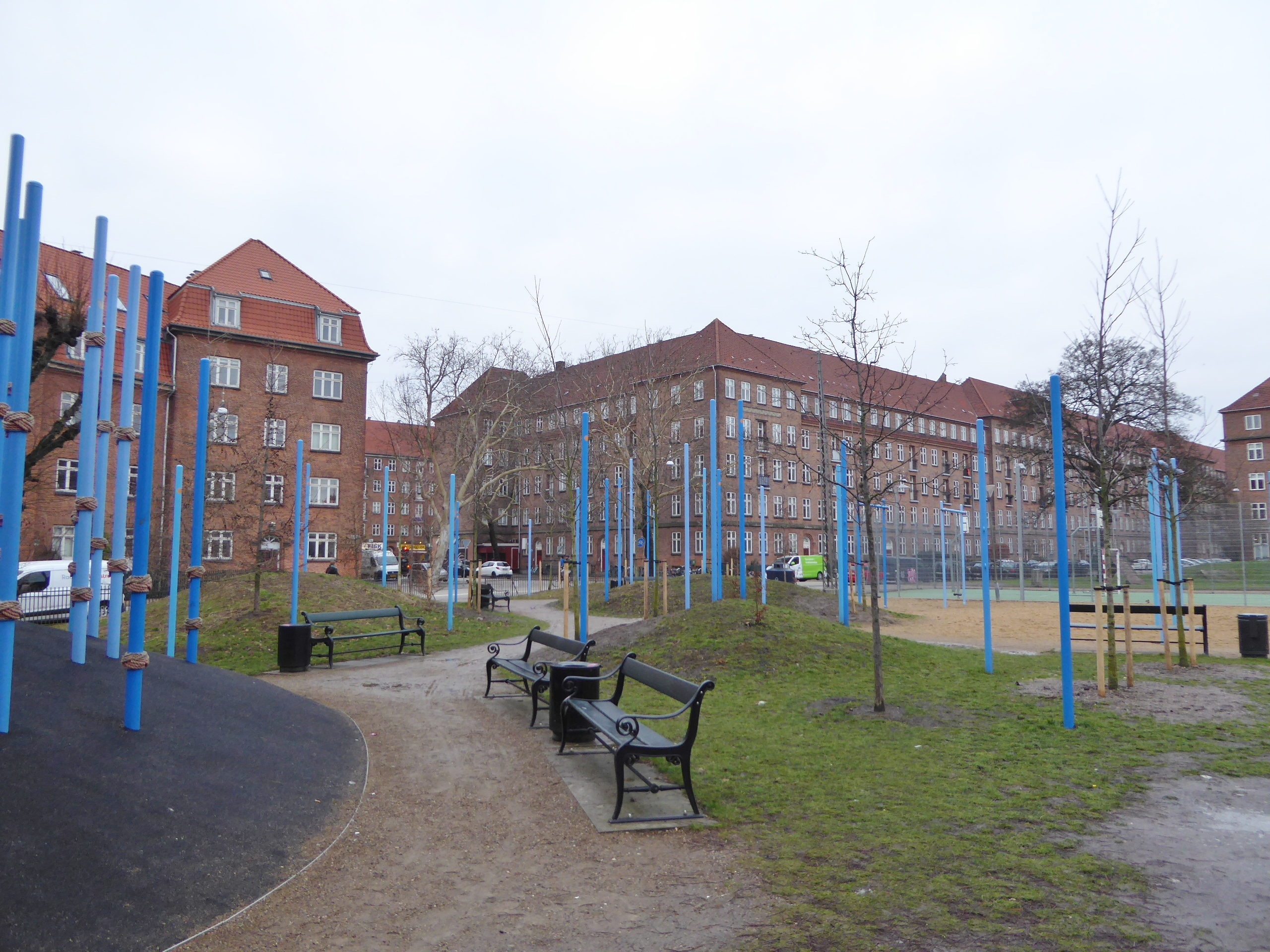 The square Guldbergs Plads in Nørrebro in Copenhagen.